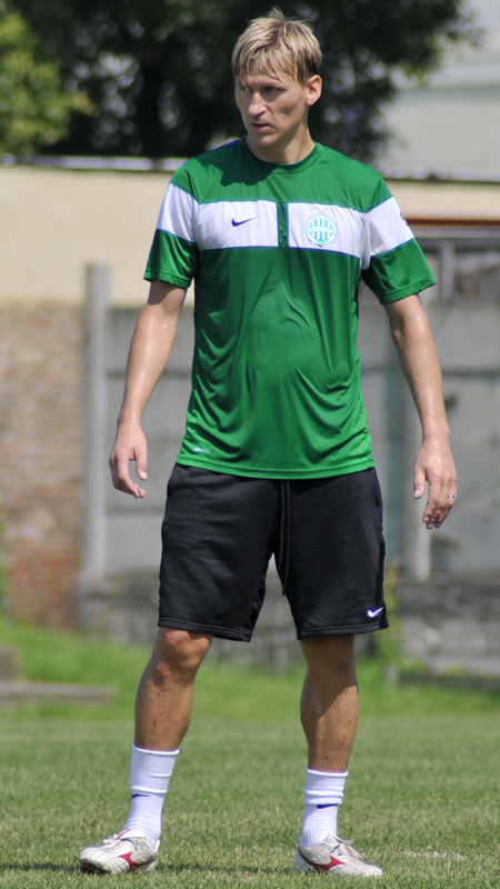 Marek Heinz, Czech football player.